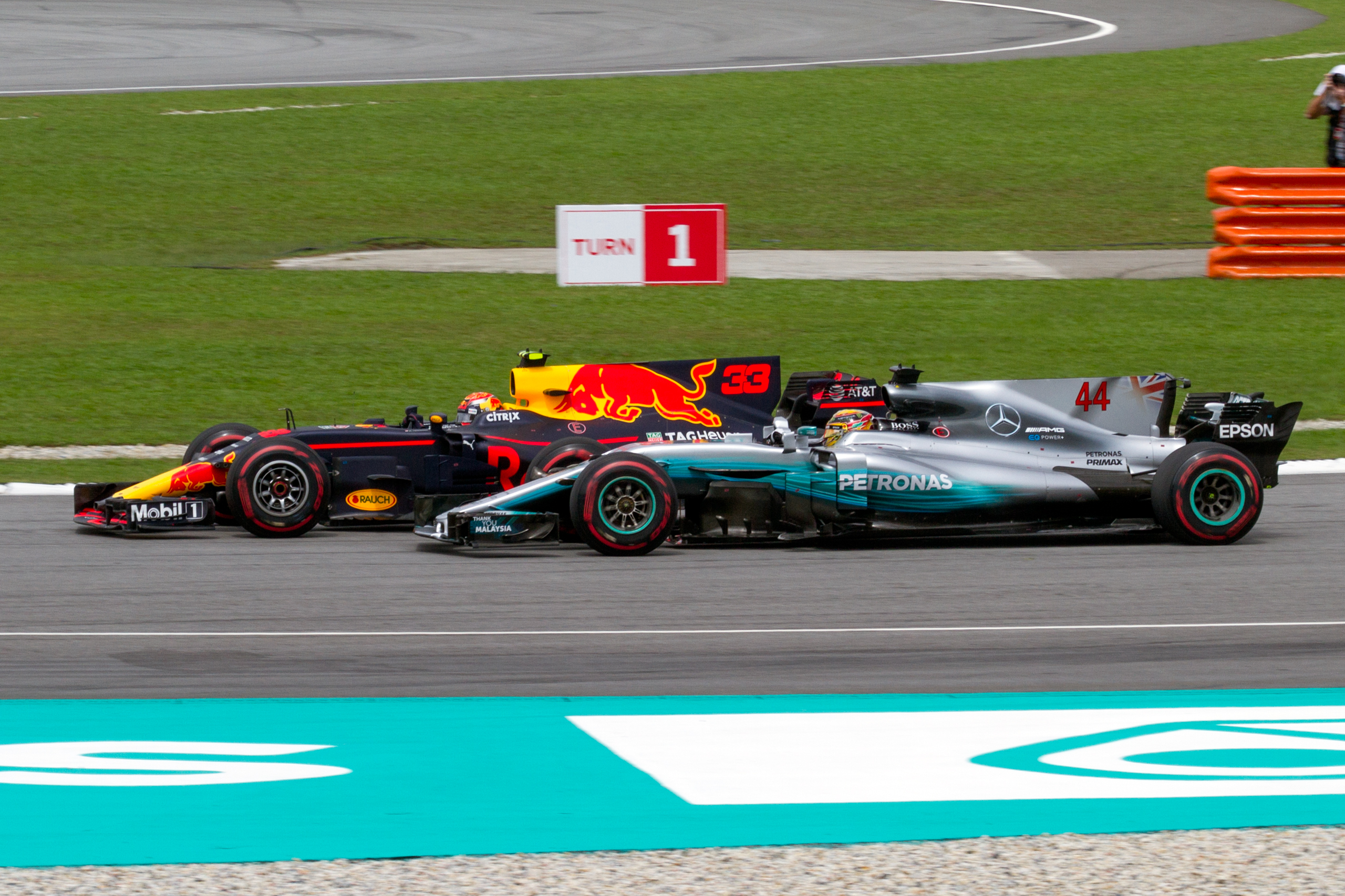 Formula One 2017 Rd.15 Malaysian GP: Max Verstappen (Red Bull) overtaking Lewis Hamilton (Mercedes)